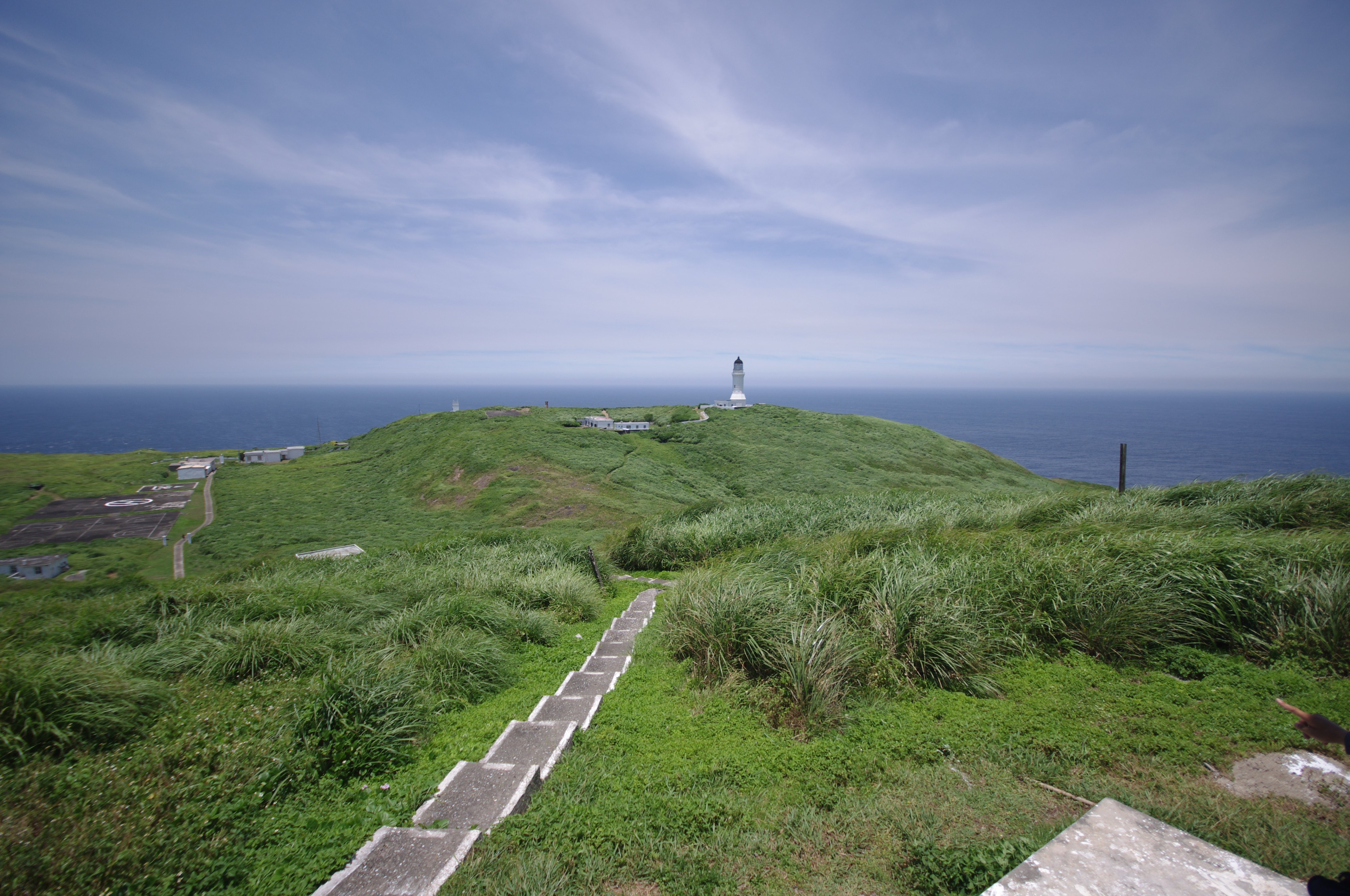 Pengjia Lighthouse